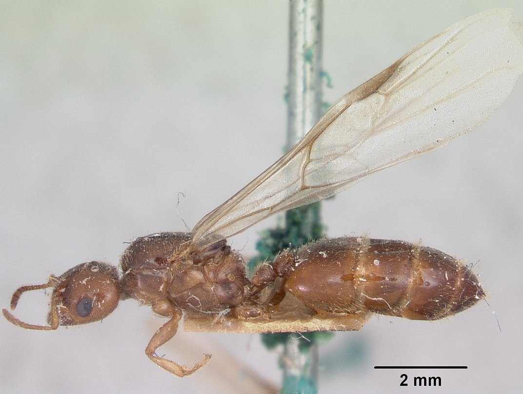 Profile view of ant Crematogaster gibba specimen casent0101578.